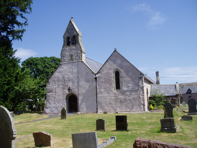 Llanarmon yn Iâl Church. Church dedicated to St Garmon.